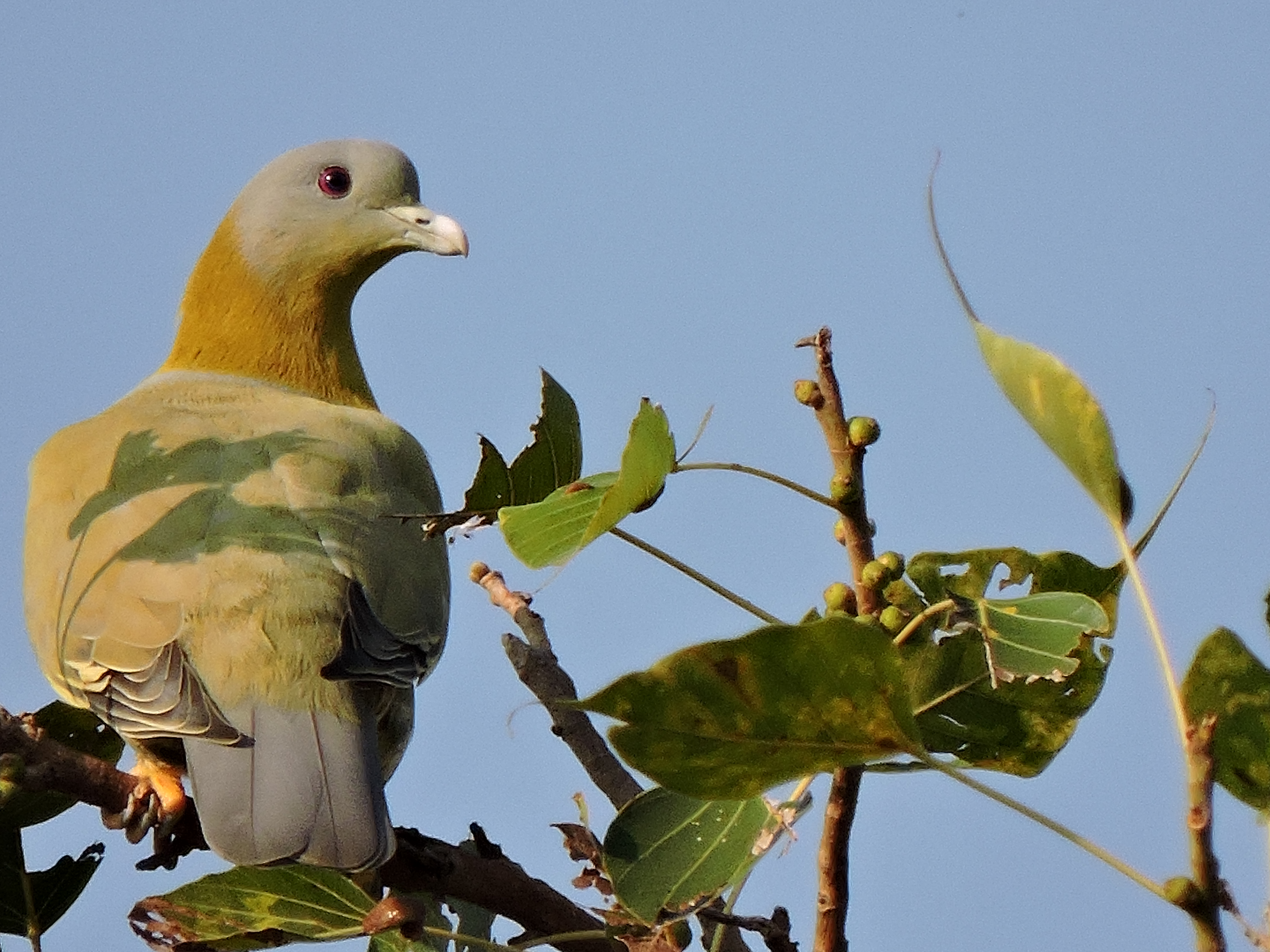 Yellow-footed Green Pigeon Treron phoenicopterus, Mohali, Punjab, India